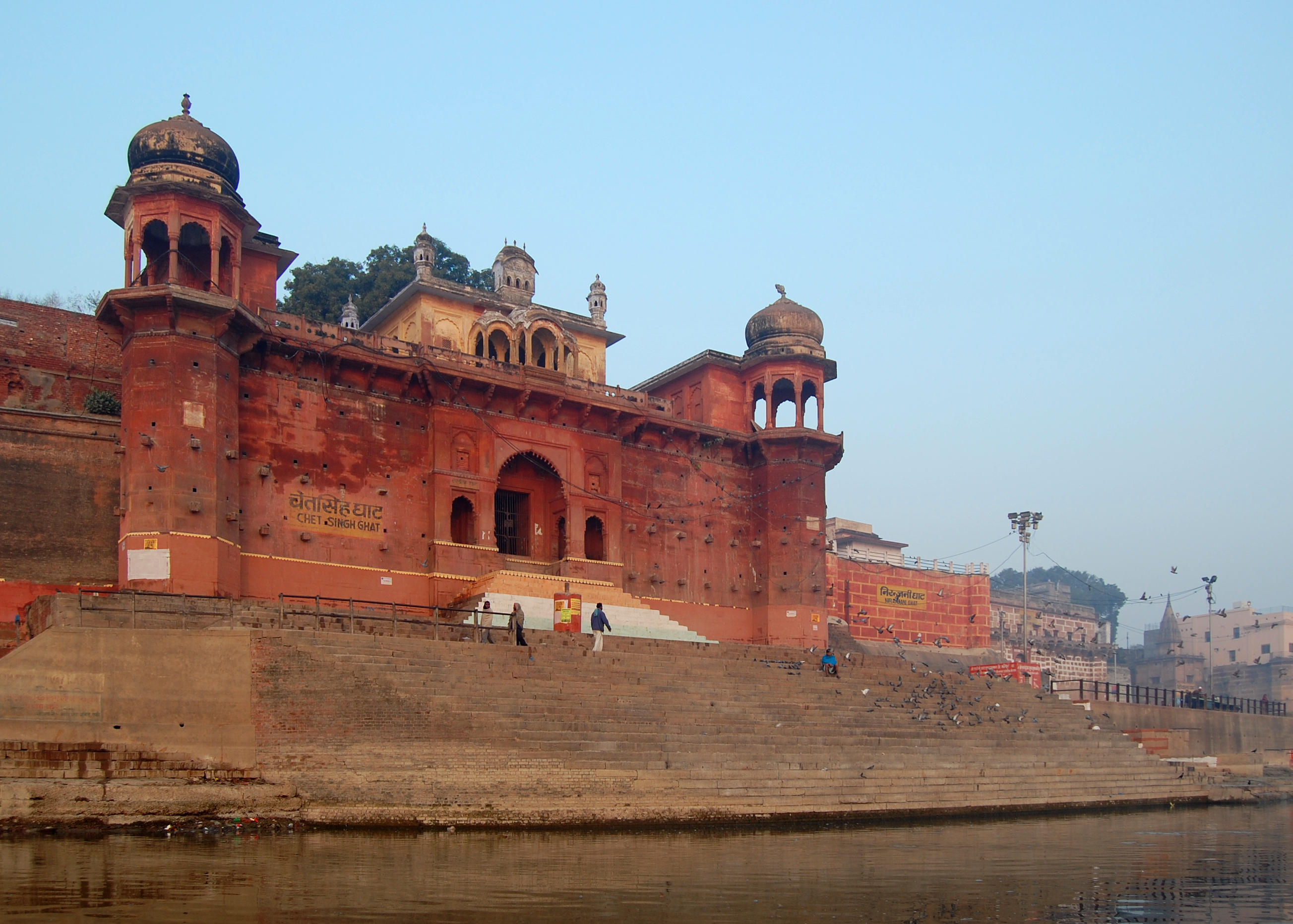 Varansi, India as seen from Ganga river.